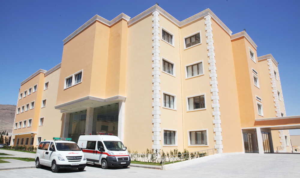 This is the Syrian Private University hospital